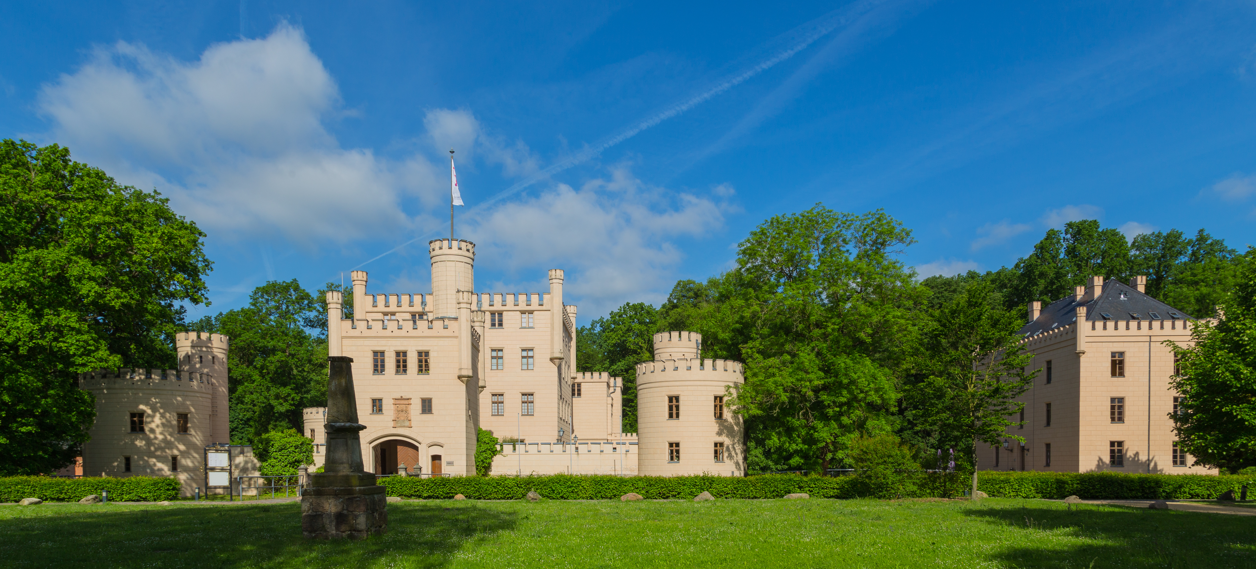 Letzlingen Hunting Lodge (Jagdschloss Letzlingen) in Letzlingen, district of Gardelegen, Altmarkkreis Salzwedel, Saxony-Anhalt, Germany. The Jagdschloss is now used as a museum and a hotel and restaurant (Schloßhotel Letzlingen). It is a listed cultural heritage monument.